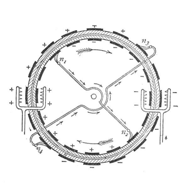 Wimshurst machine, schematic circuit (Rankin Kennedy, Electrical Installations, Vol V, 1903).jpg